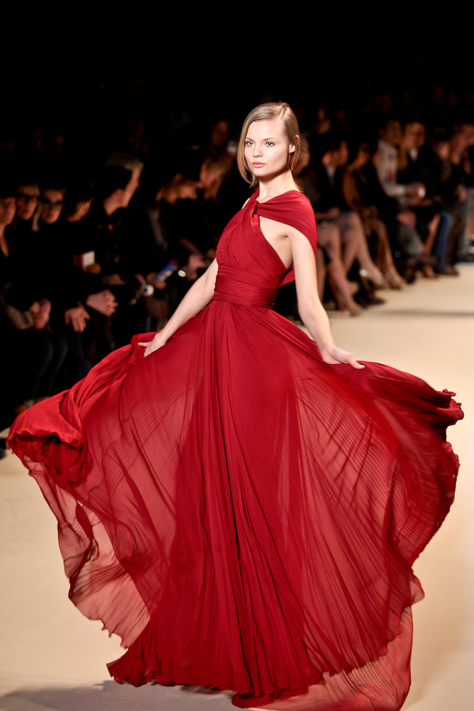 Photographed by Simon Ackerman at Elie Saab, Paris Fashion Week Fall 2011